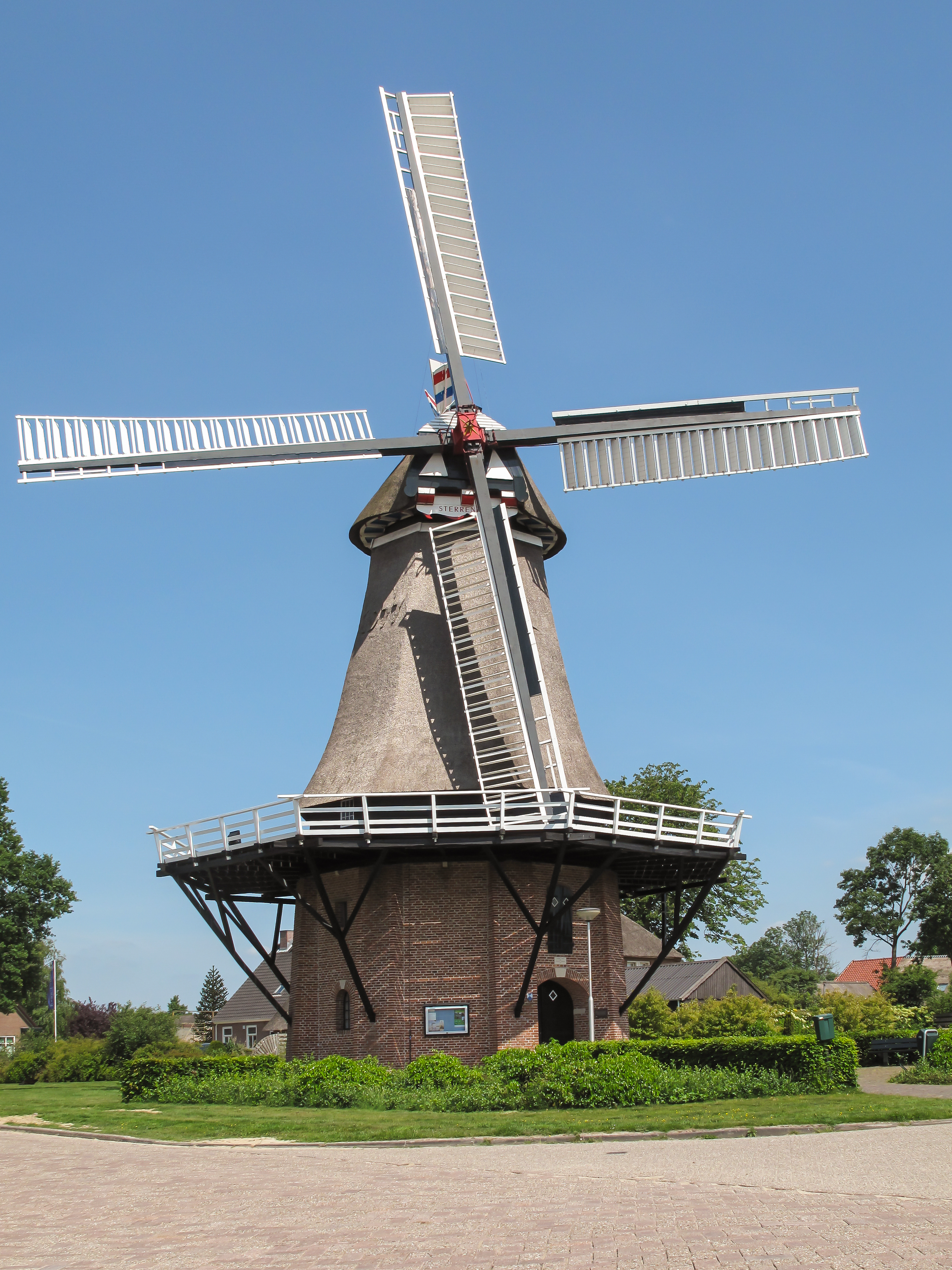 Nijeveen, windmill: korenmolen de Sterrenburg